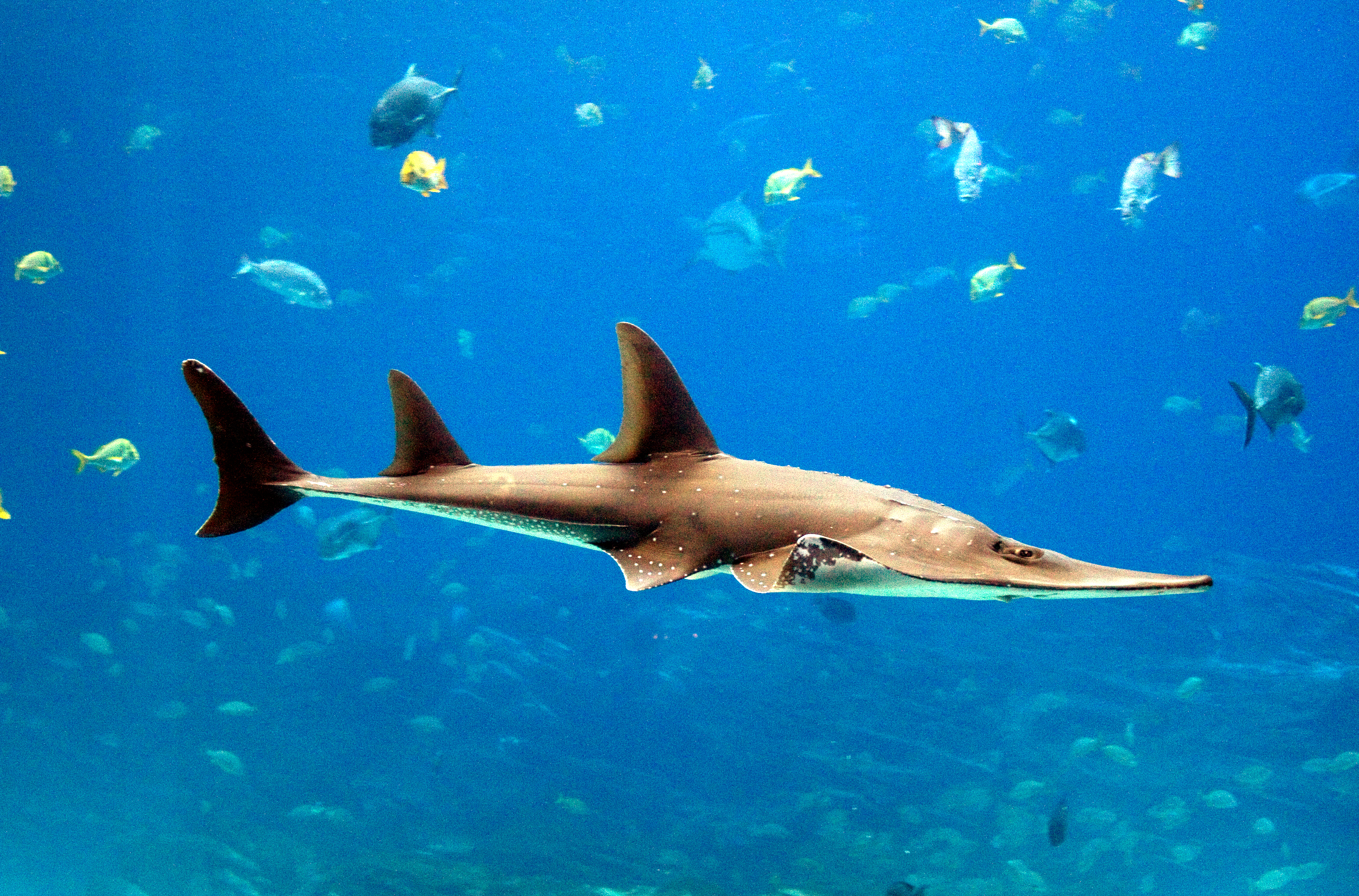 Giant guitarfish (Rhynchobatus djiddensis)